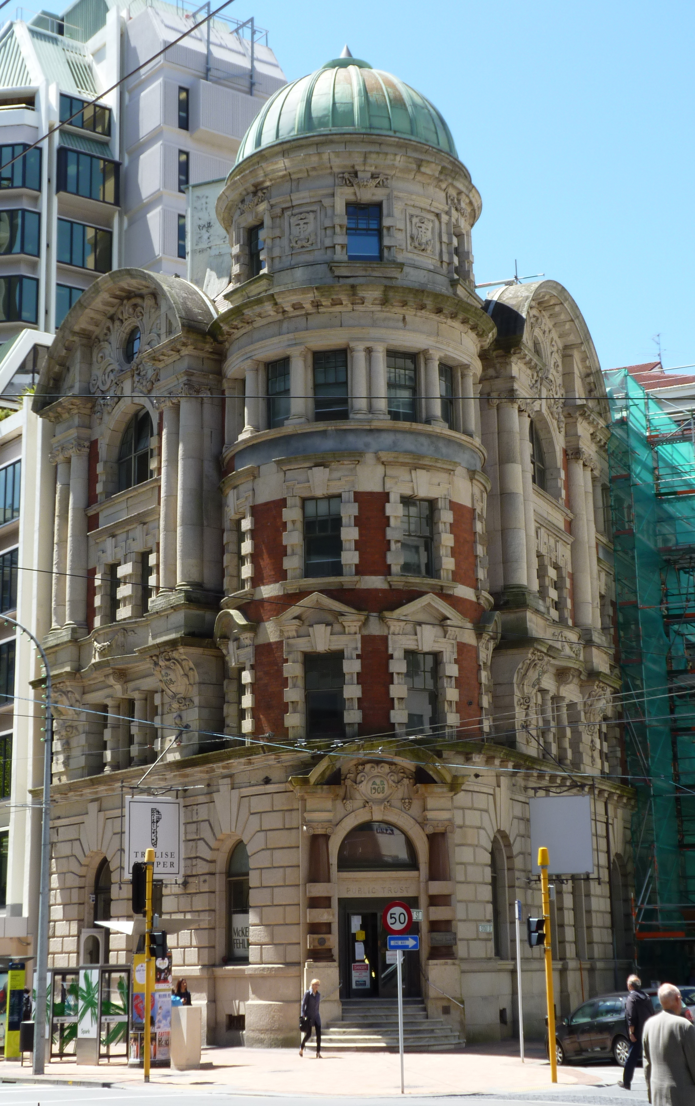 Public Trust Office Building (Former). Wellington, Wellington Region, New Zealand